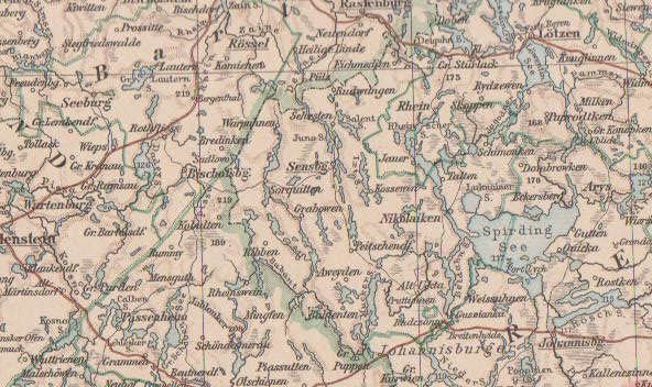 Sorkwity, then called Sorquitten, situated between the towns of Bischofsburg (today Biskupiec) and Sensburg (today Mrągowo), on a map of the province of East Prussia of 1893